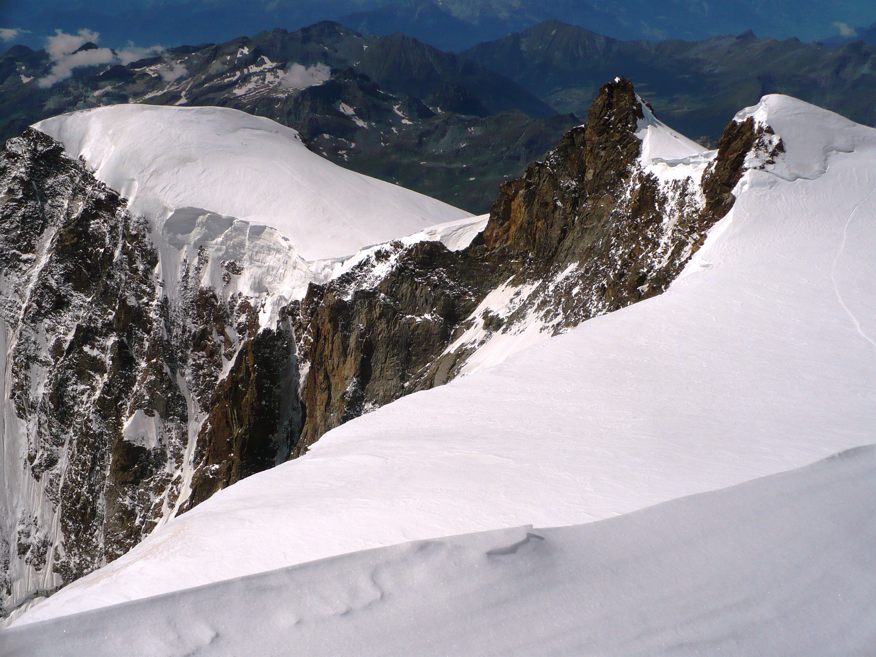 Vincent-Pyramide (left), Schwarzhorn (center-right) and Ludwigshöhe (right) from Parrotspitze - Monte Rosa massif